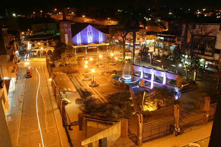 ..Quevedo